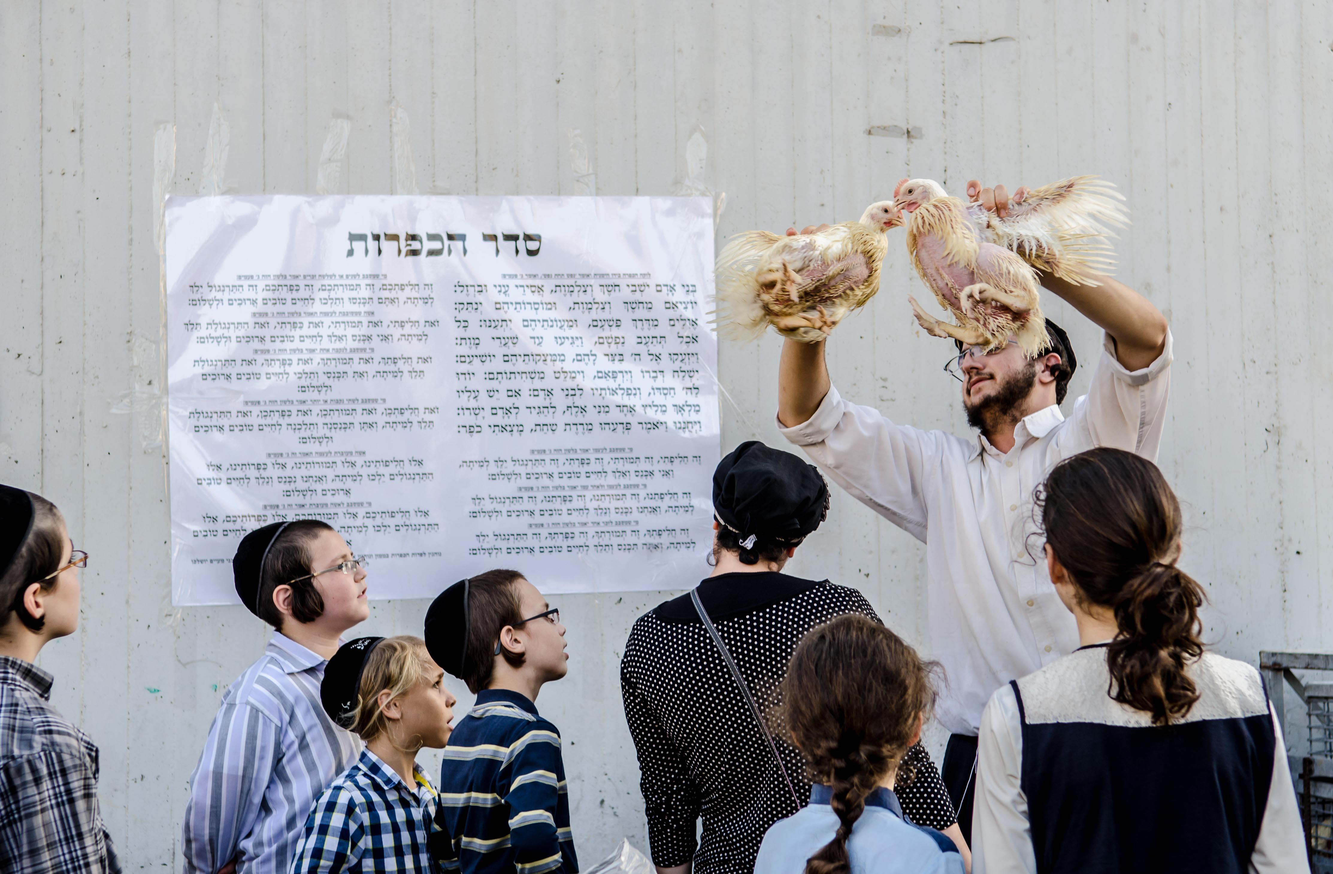 Kapparot in Bnei Brak, Jewish holidays